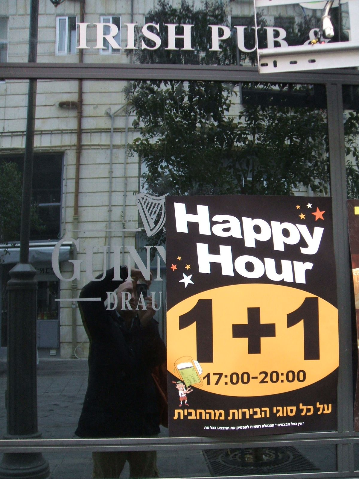 "Happy Hour" sign on a pub in Jerusalem (in Hebrew: all draft beers, 1 + 1 free)